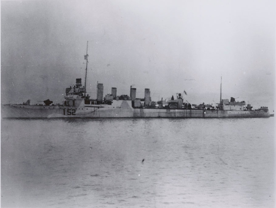 Royal Navy destroyer HMS Salisbury, formerly USS Claxton.